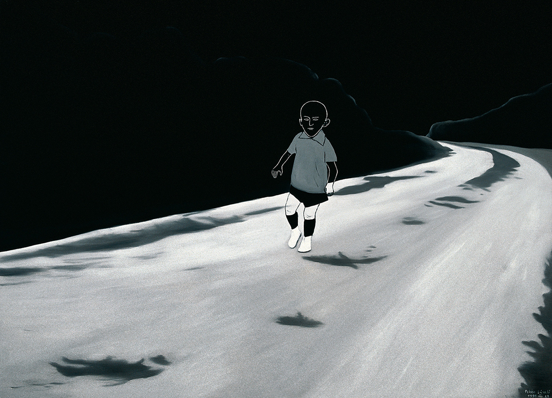 László Fehér, On the road, 1991, oil on canvas, 180 x 250 cm